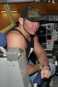 Matt Hardy and Amy "Lita" Dumas (not seen in this crop) and at the 190th Air Refueling Wing, Kansas Air National Guard in Forbes Field in Topeka, Kansas.